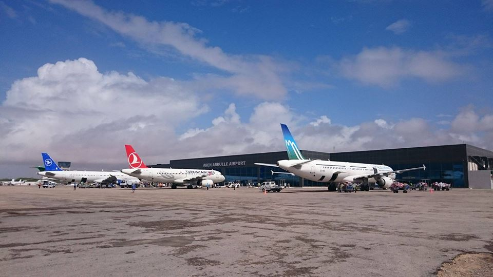 Airport of Mogadishu